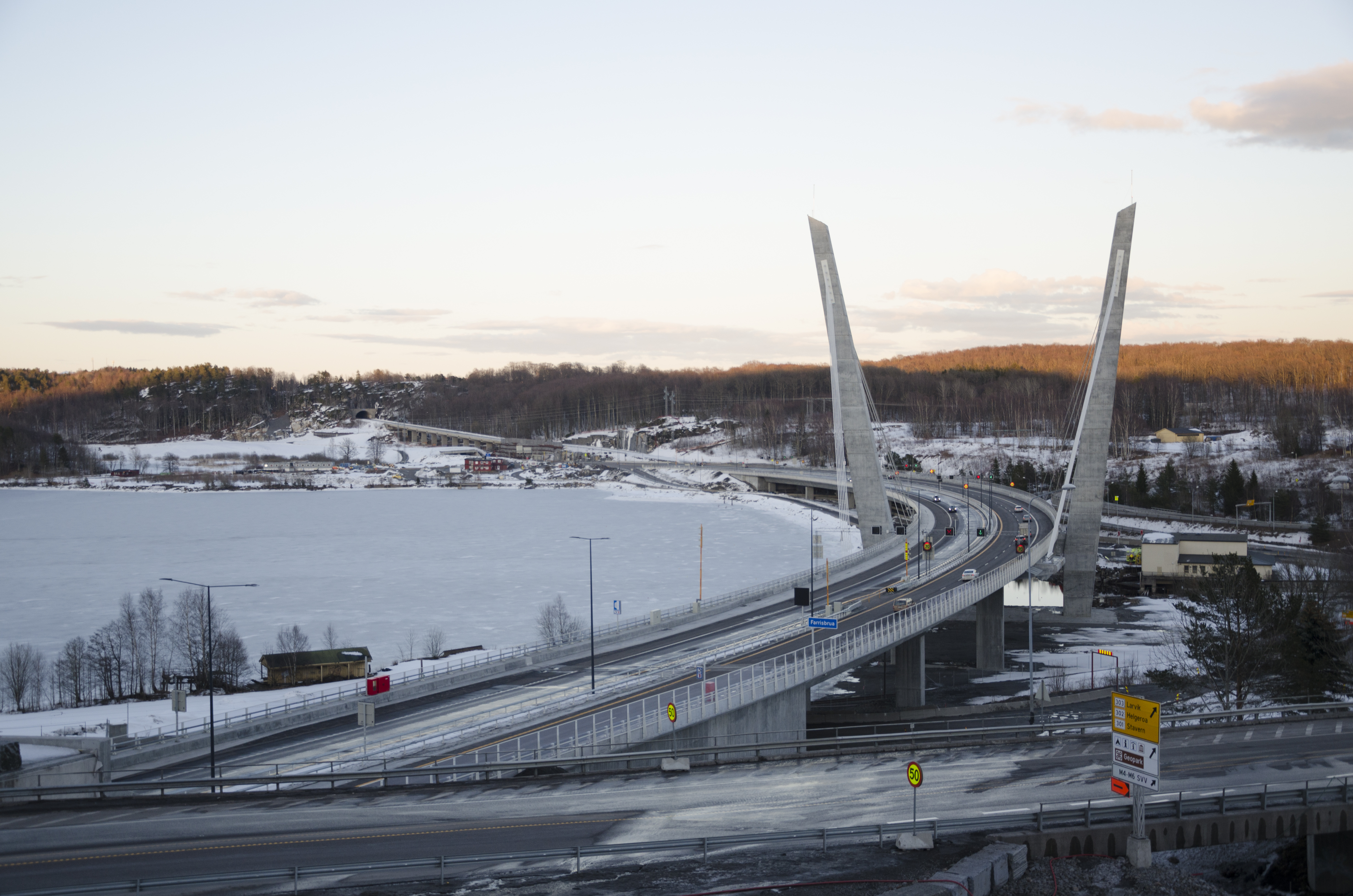 The Farris bridge seen from the west.